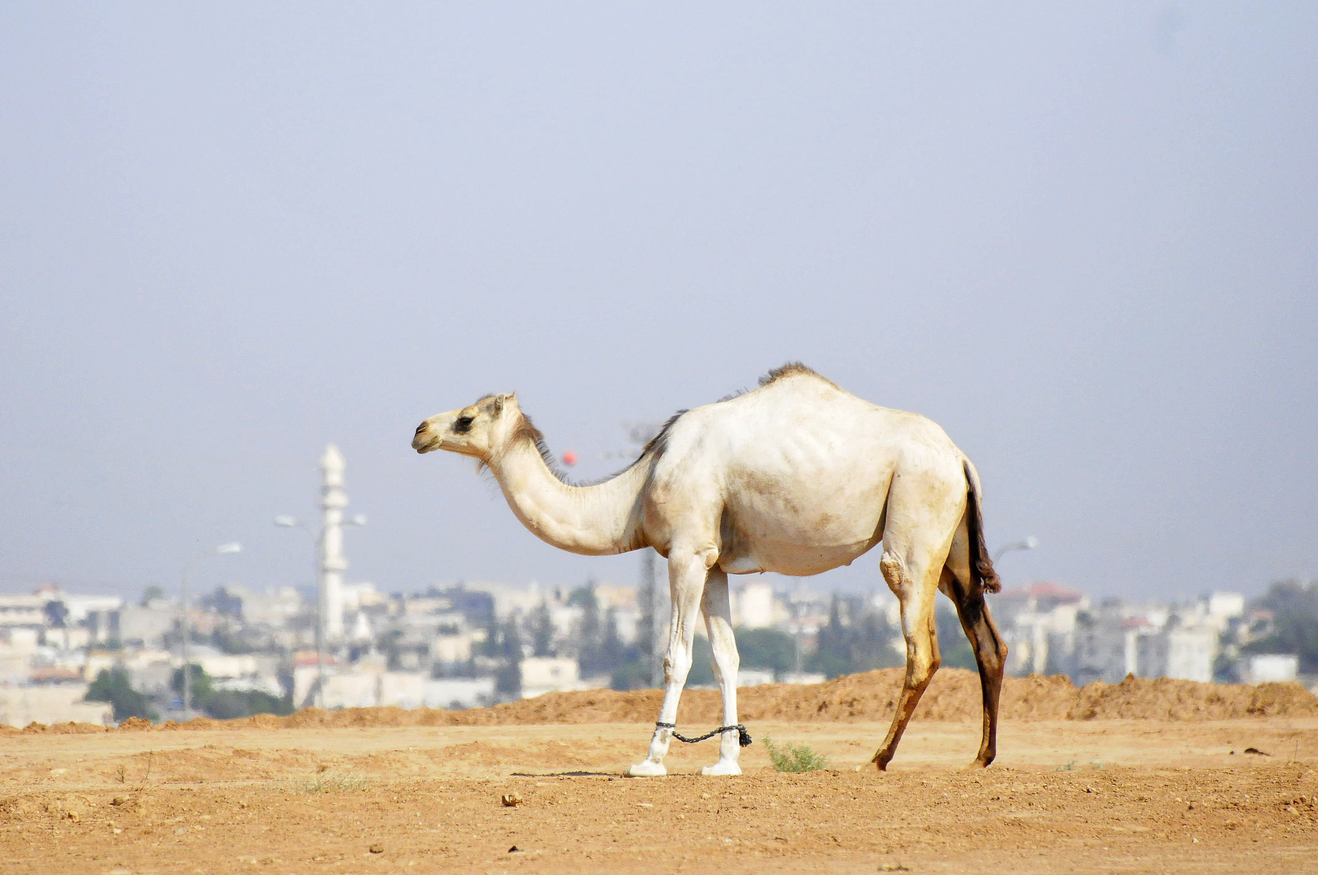 A camel with Rahat on the background